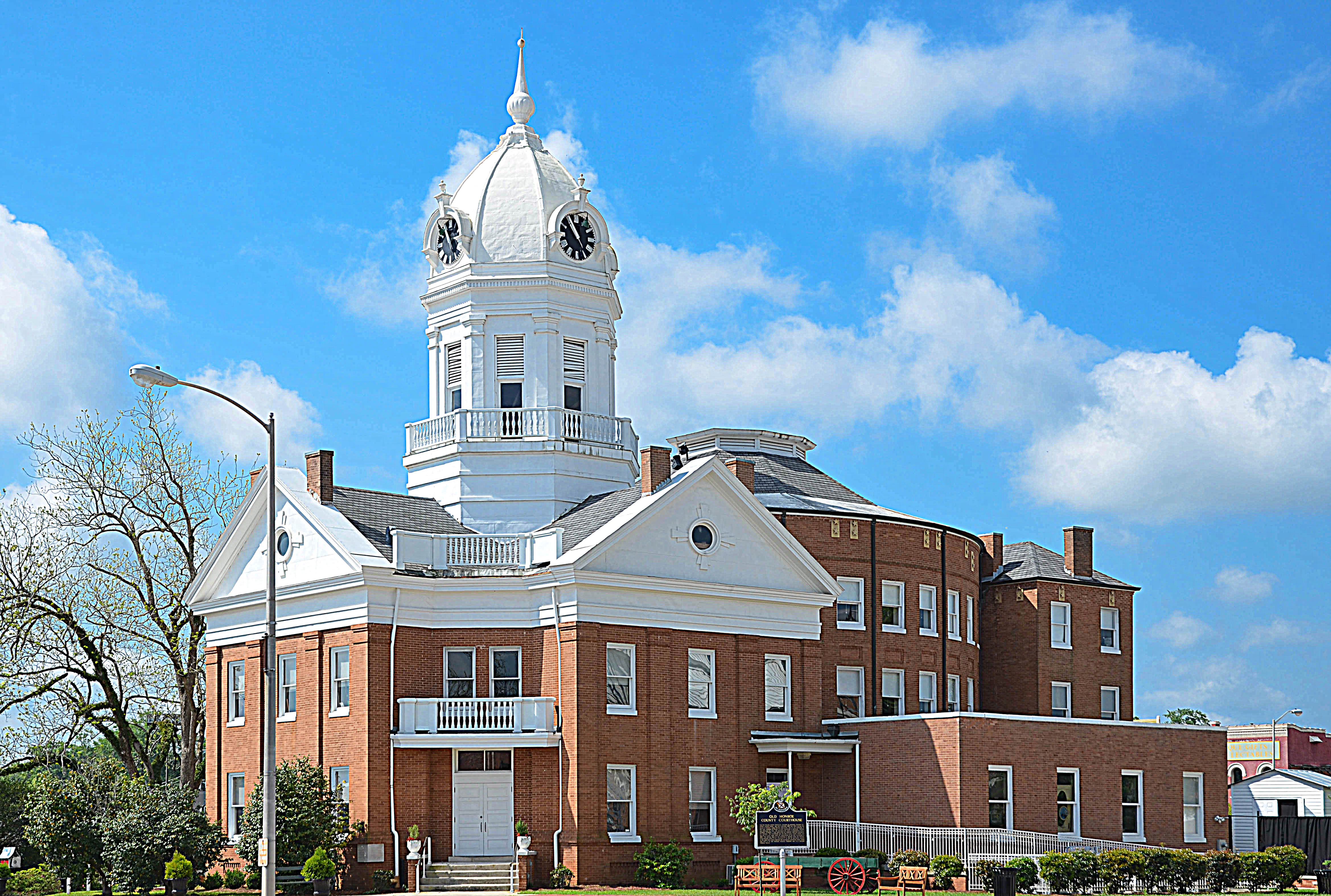 Alabama-Monroe County Courthouse retired